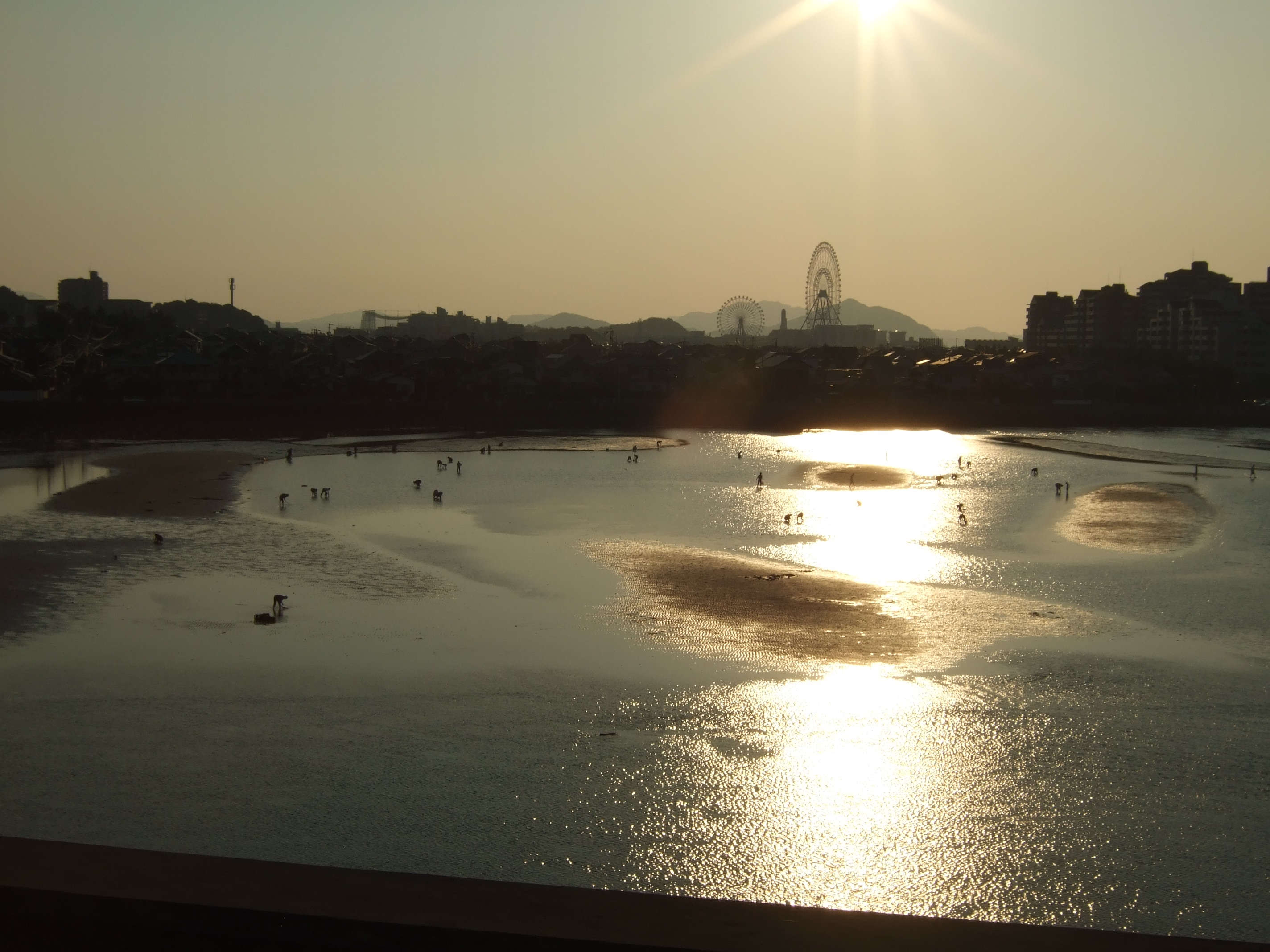 Fiume Muromigawa